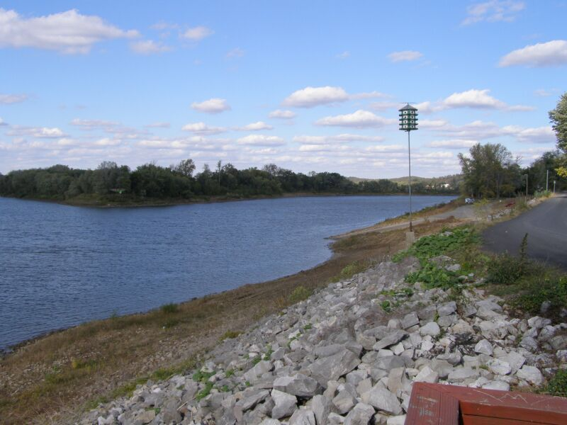 Mouth of the Cumberland River at Smithland, Kentucky